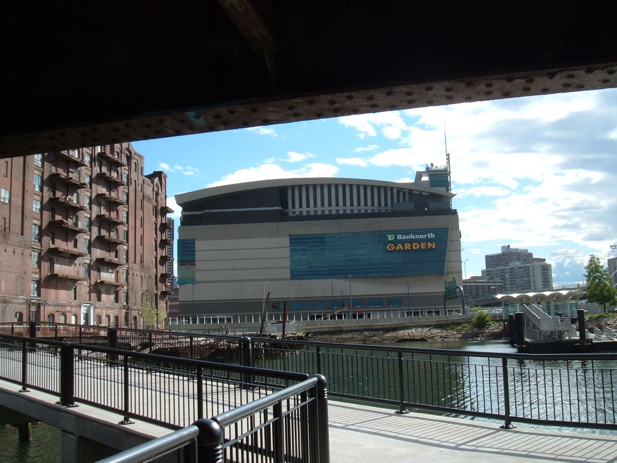 View of the Boston Harborwalk from under the Charlestown Bridge in Boston, Massachusetts